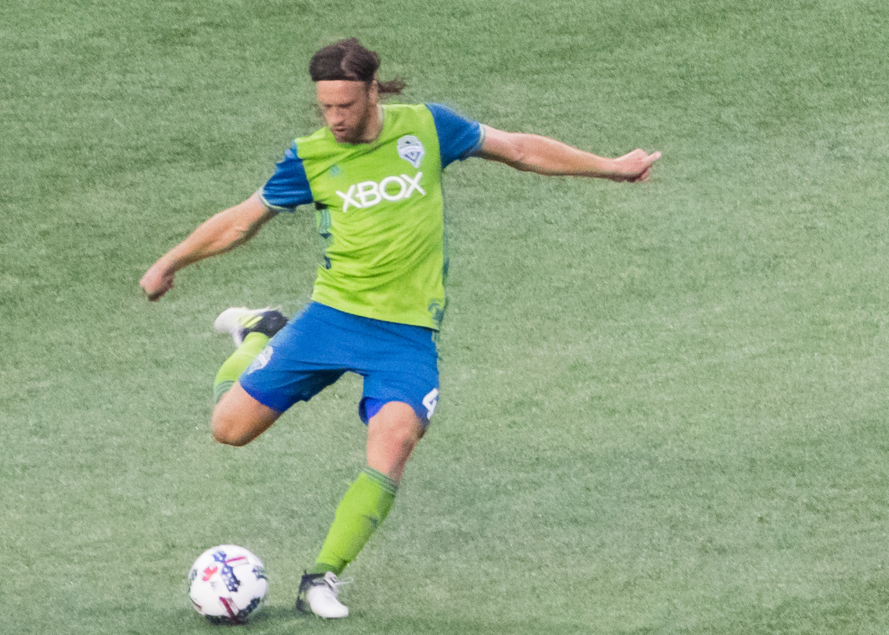 Gustav Svensson during Seattle Sounders FC vs. San Jose Earthquakes on July 23, 2017